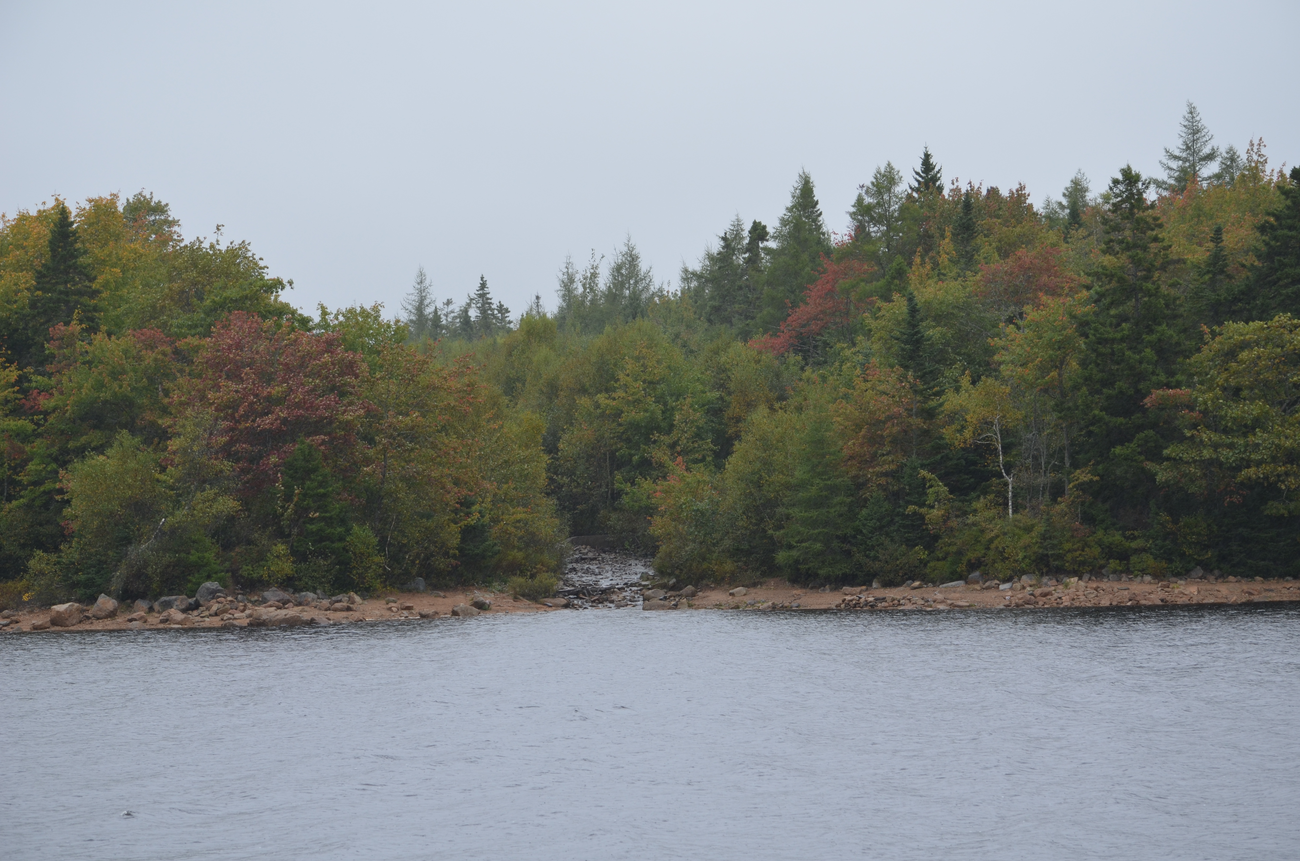 Changing colors of fall